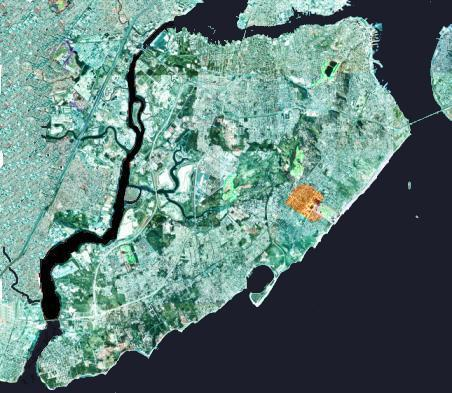 The approximate region of the neighborhood of New Dorp on Staten Island, New York is shown highlighted in orange.